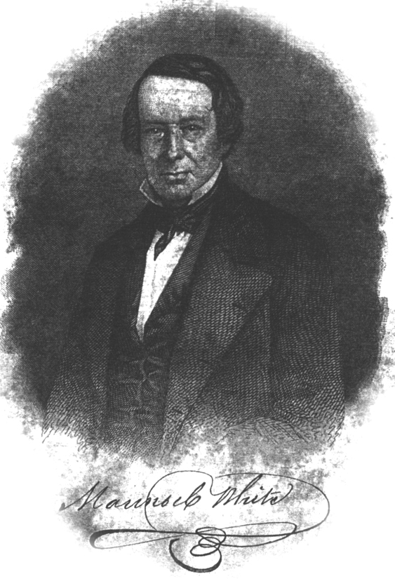 An illustration showing portrait and signature of Maunsel White, from DeBow's Review, 1851.